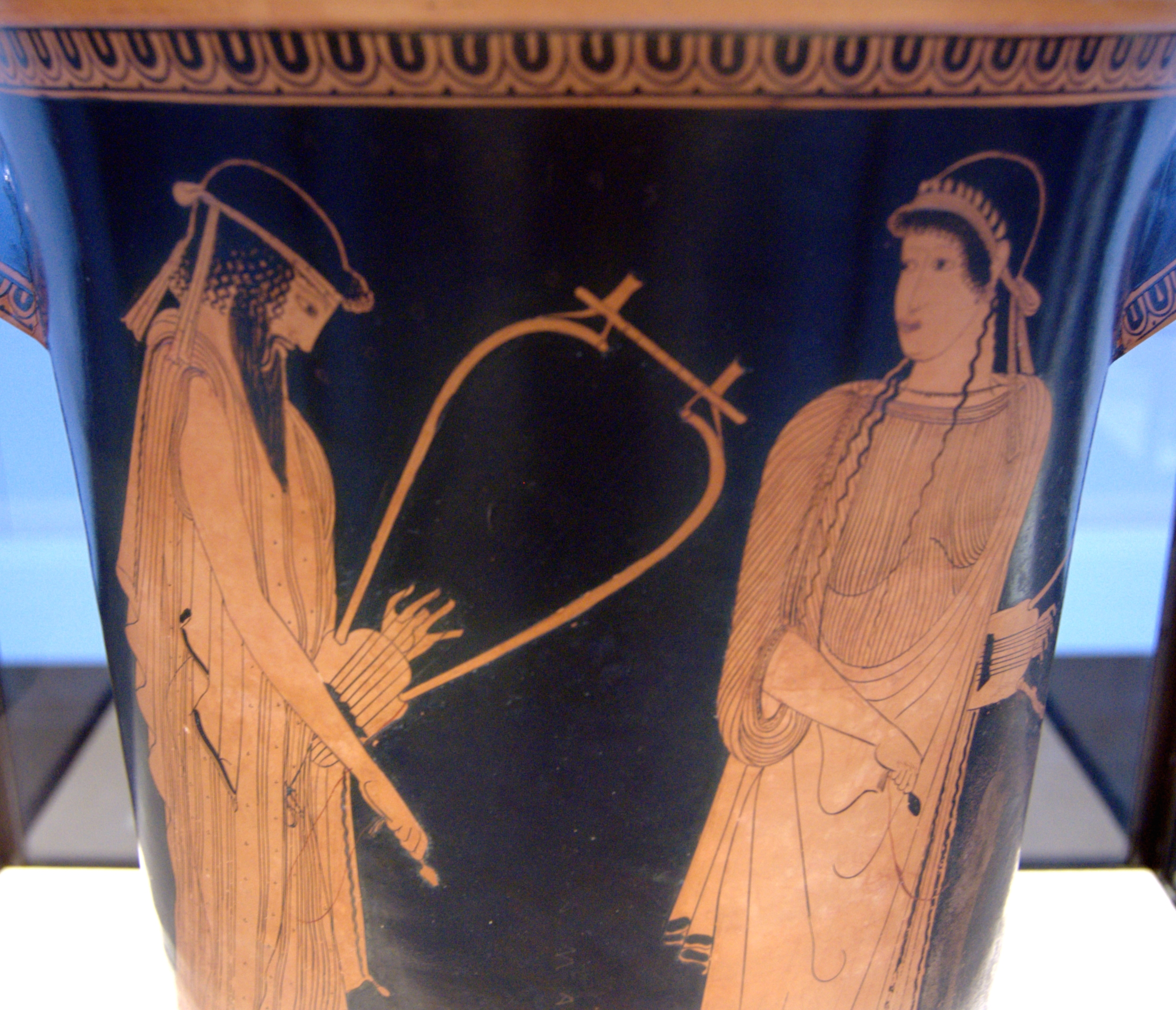 Alcaeus and Sappho. Side A of an Attic red-figure kalathos, ca. 470 BC. From Akragas (Sicily).